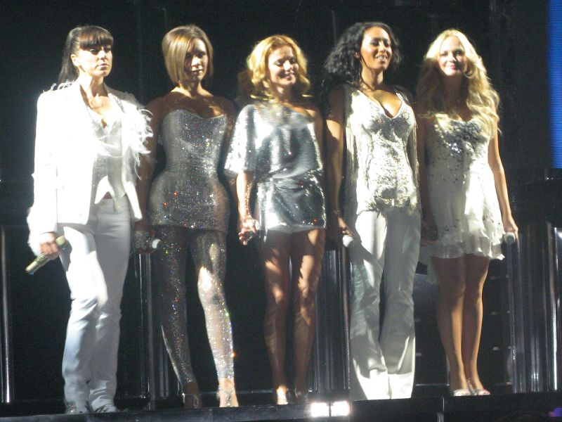 Spice Girls in Las Vegas